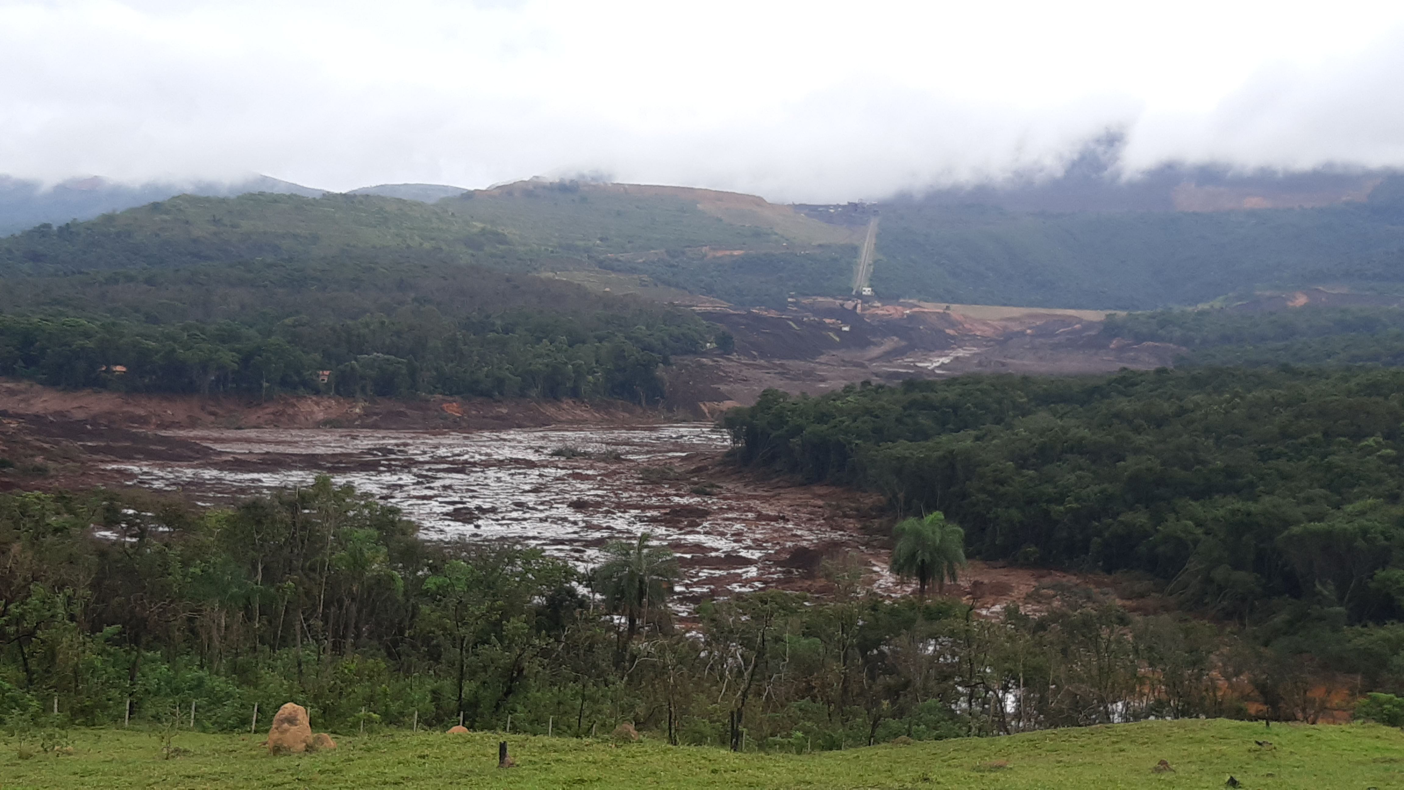 View to the devastated ore loading station of Mina Córrego do Feijão and the vanished mining offices and the cantina.